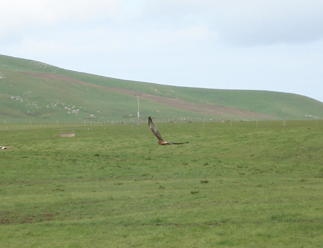 Australasian harrier (Circus approximans gouldi)